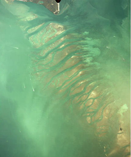 Aerial photograph of the Safety Valve between central Biscayne Bay and the Atlantic Ocean